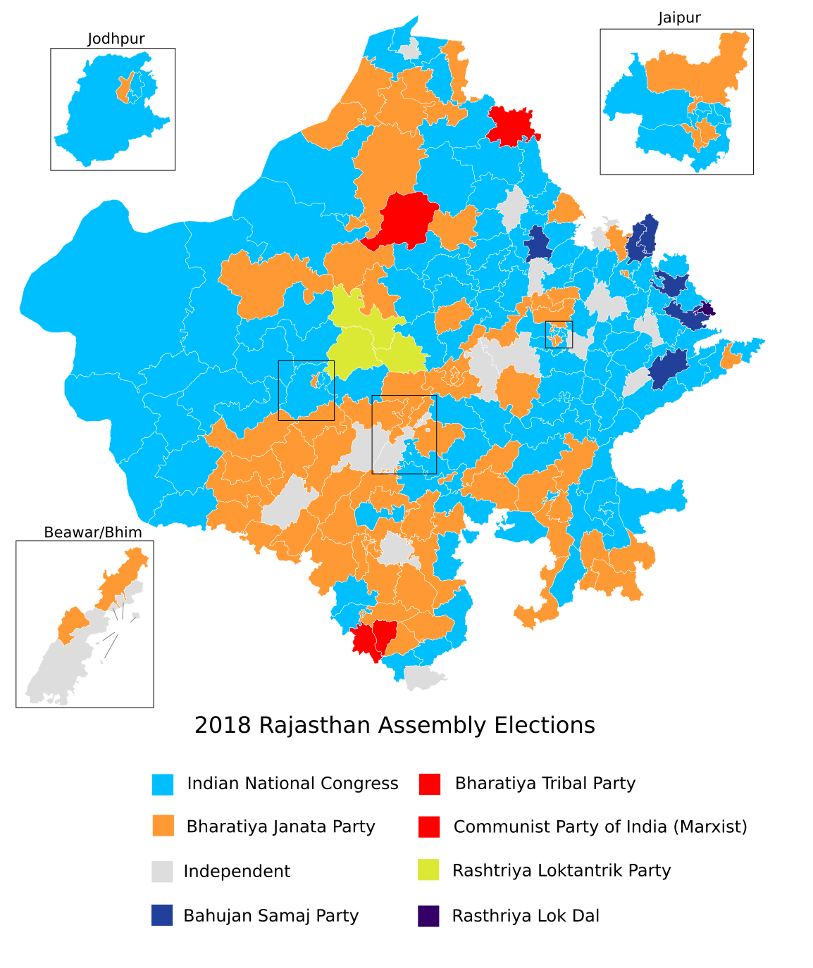 Results of the 2018 Rajasthan assembly elections